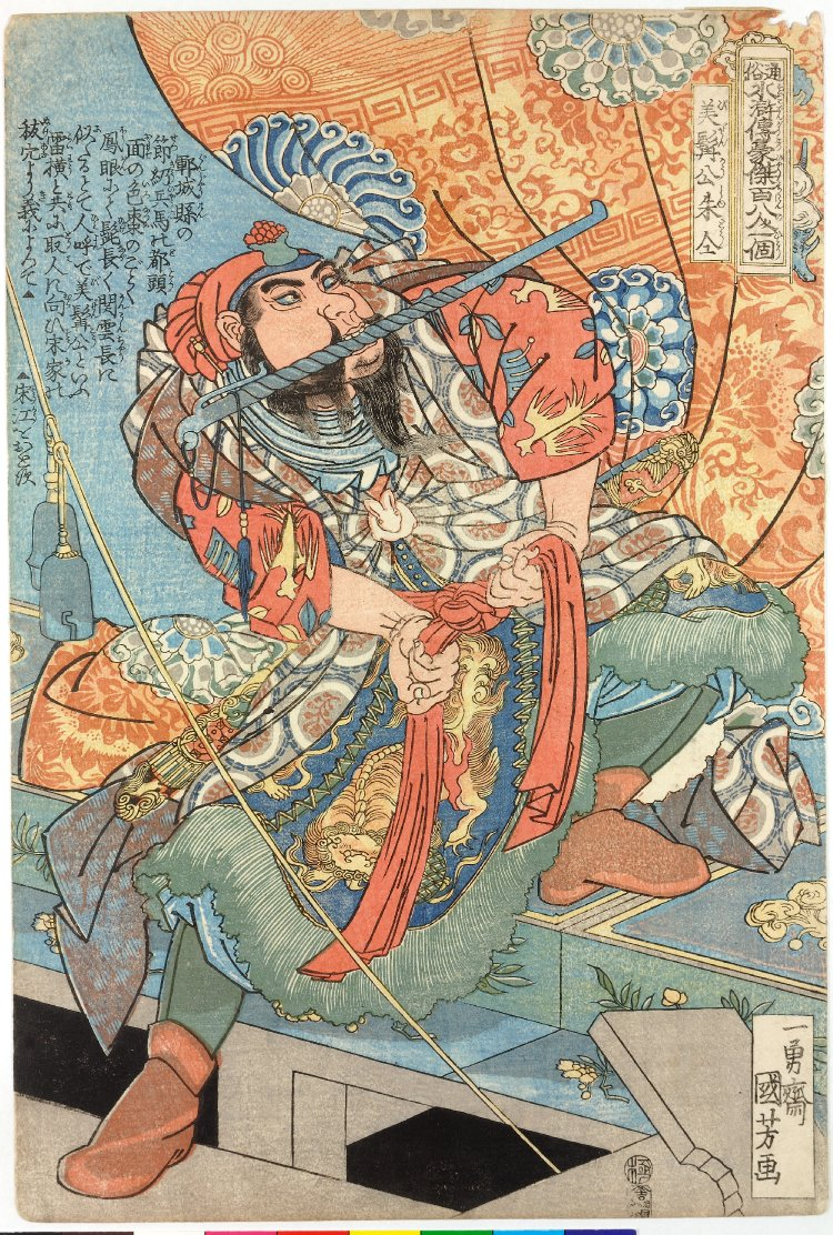 Zhu Tong (朱仝), with an iron truncheon in his mouth, tying his belt.